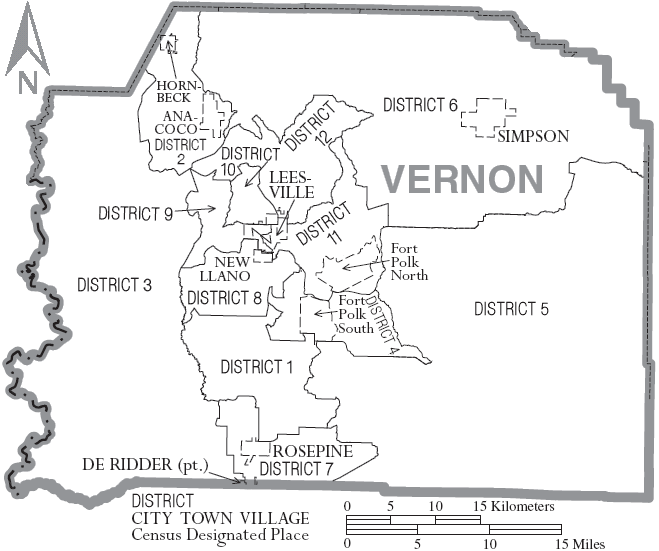 Map of Vernon Parish, Louisiana, United States with municipal and district boundaries